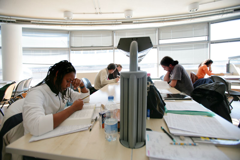 Students studying in Trieste Univerisity